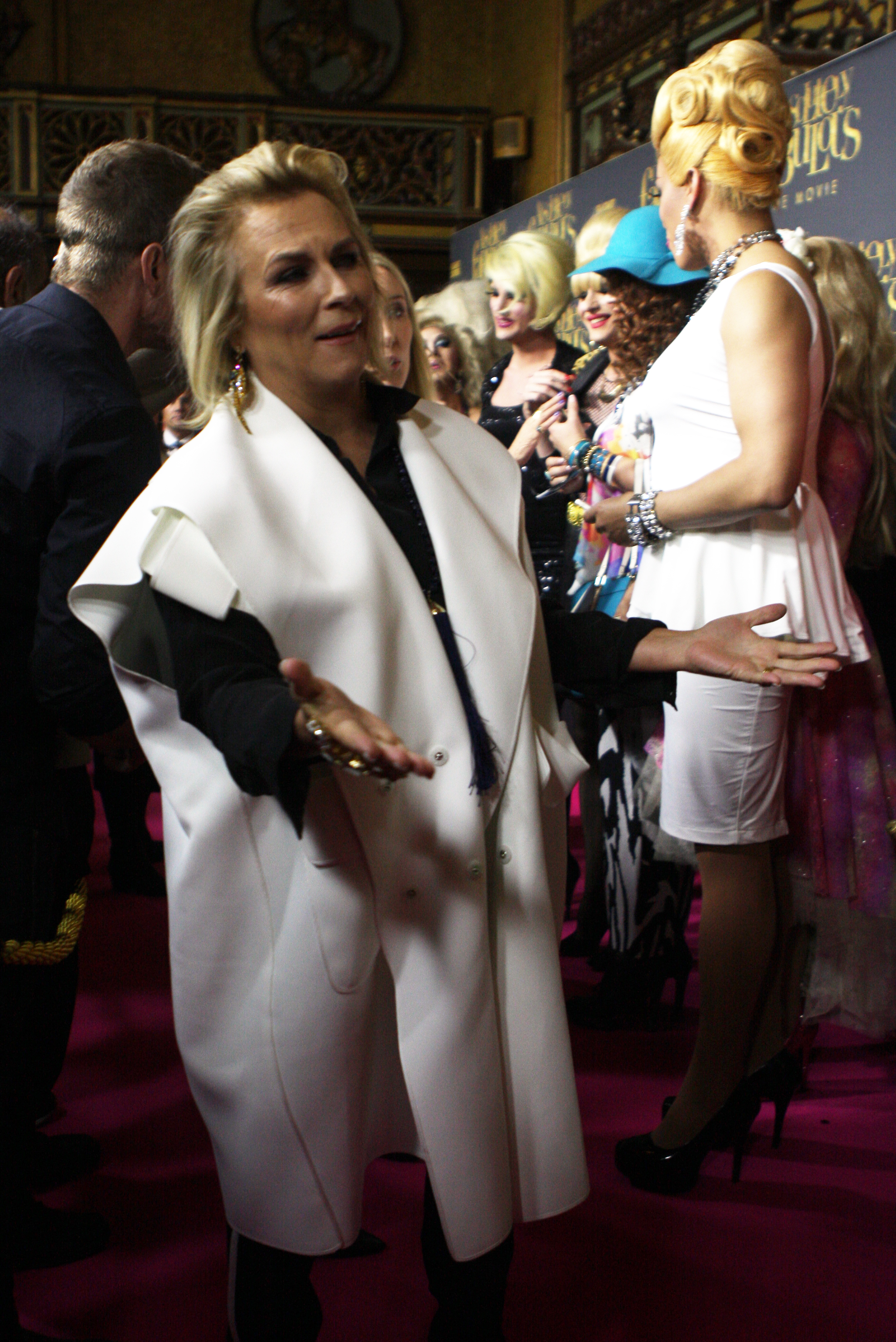 Absolutely Fabulous Australian Premiere Absolutely Fabulous Australian Premiere le 31 juillet 2016.